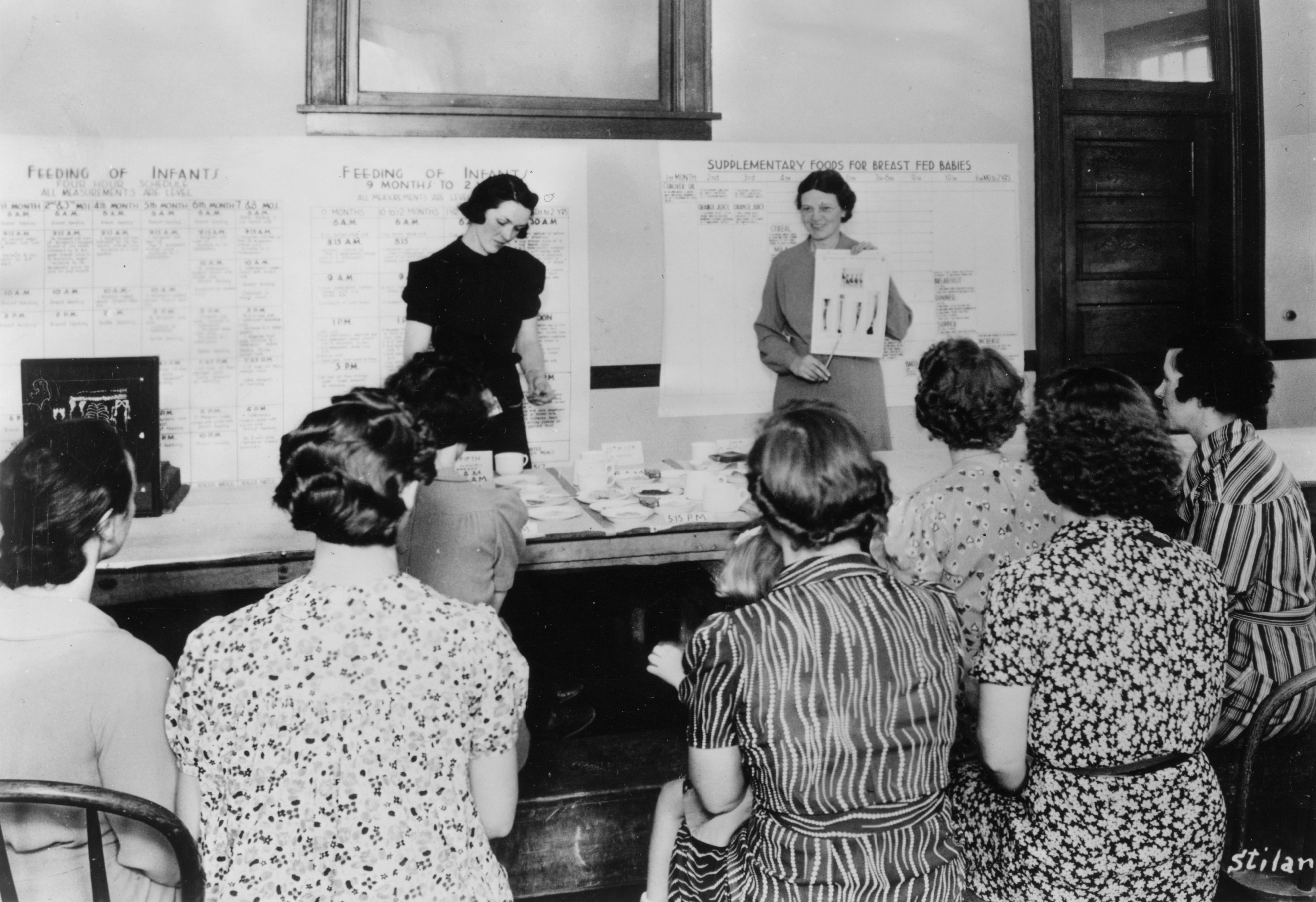 Original Collection: Extension Bulletin Illustrations Photograph Collection (P 020) Item Number: P020:1550 You can find this image by searching for the item number by clicking here. Want more? You can find more digital resources online. We're happy for you to share this digital image within the spirit of The Commons; however, certain restrictions on high quality reproductions of the original physical version may apply. To read more about what “no known restrictions” means, please visit the Special Collections & Archives website, or contact staff at the OSU Special Collections & Archives Research Center for details.